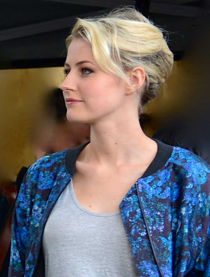 Edda Magnason during the stage presentation to Allsång på Skansen in Stockholm June 11, 2013.